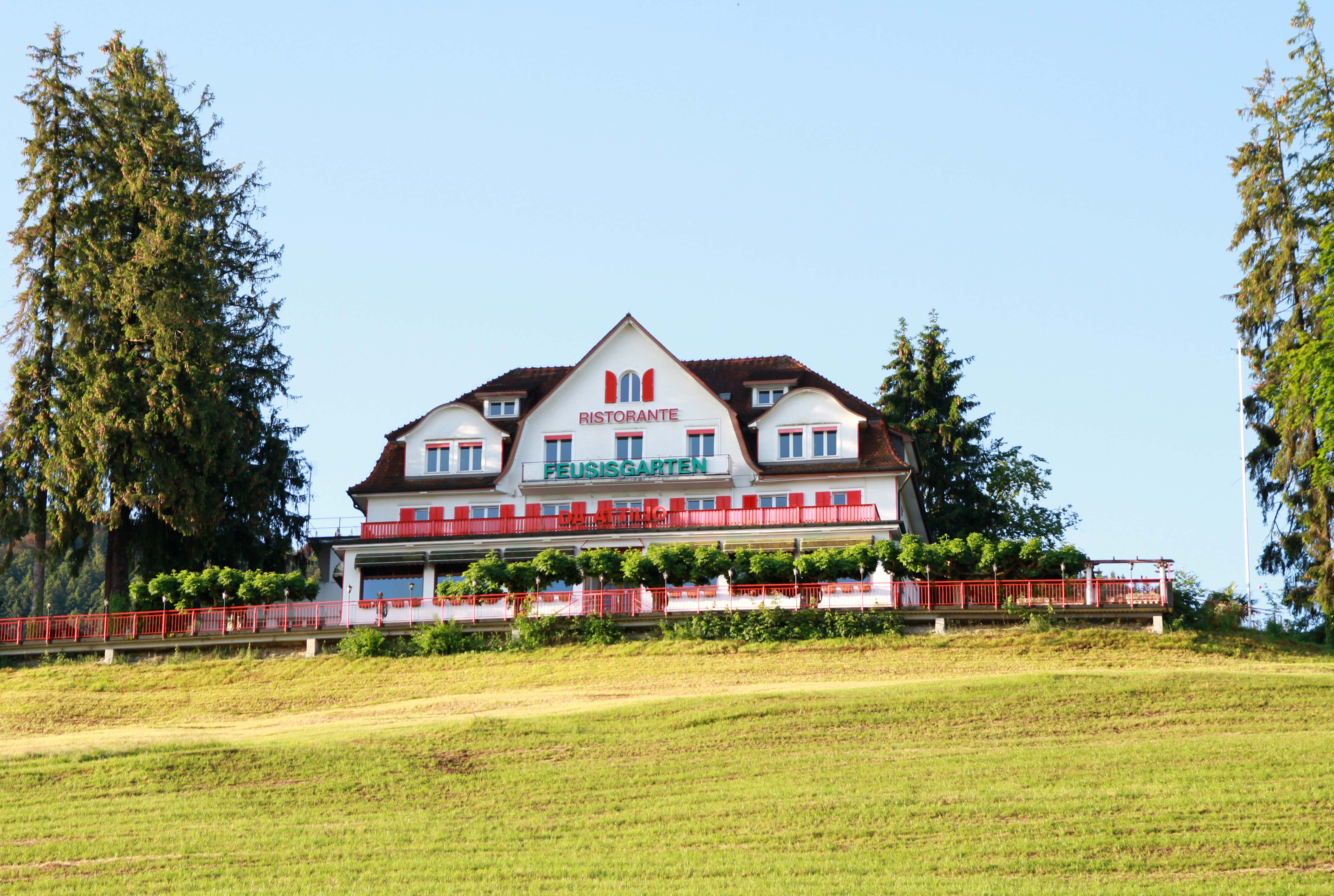 The historic health resort Feusisgarten in Feusisberg, Canton Schwyz, Switzerland, 2019